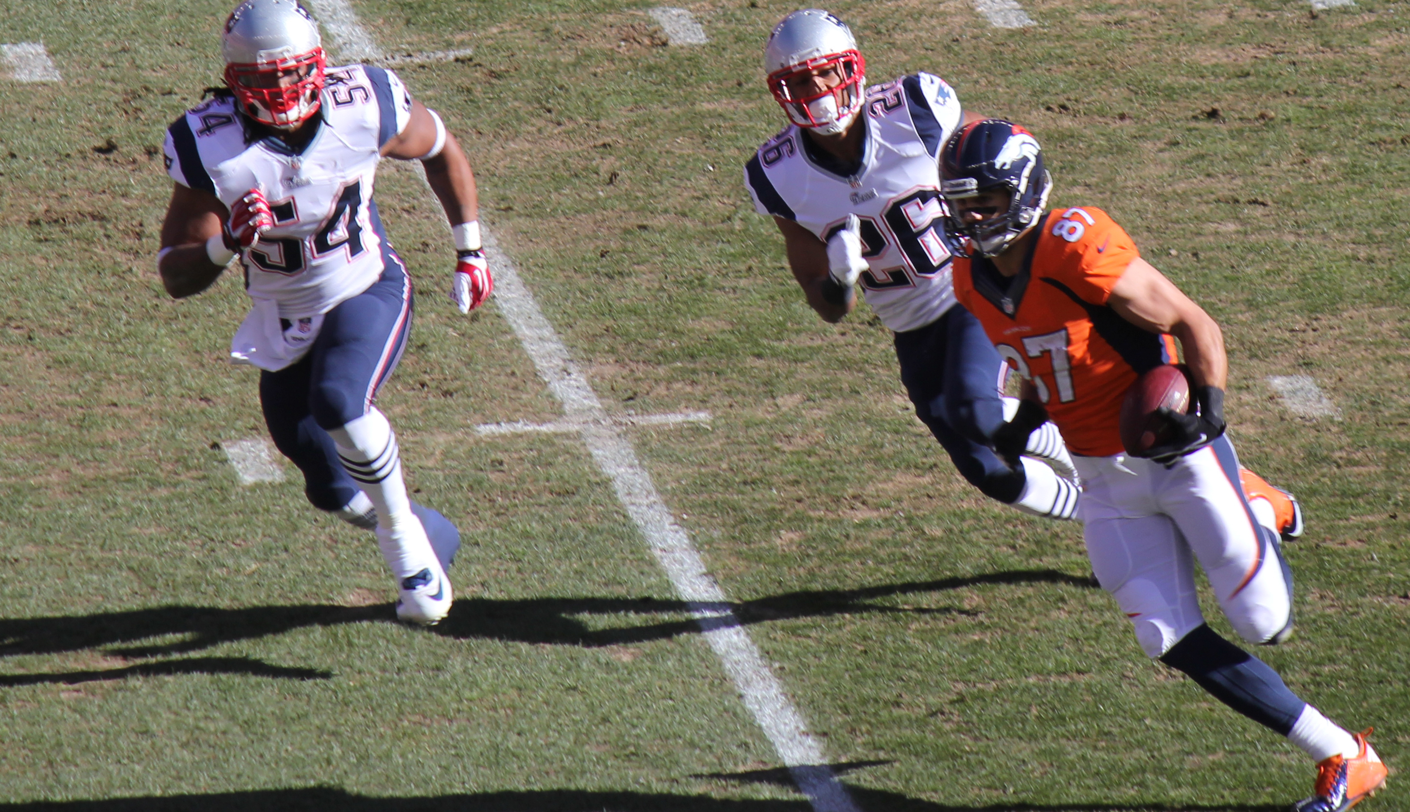 Eric Decker, number 87, a former member of the Denver Broncos, completes a play in the 2013 NFL postseason.